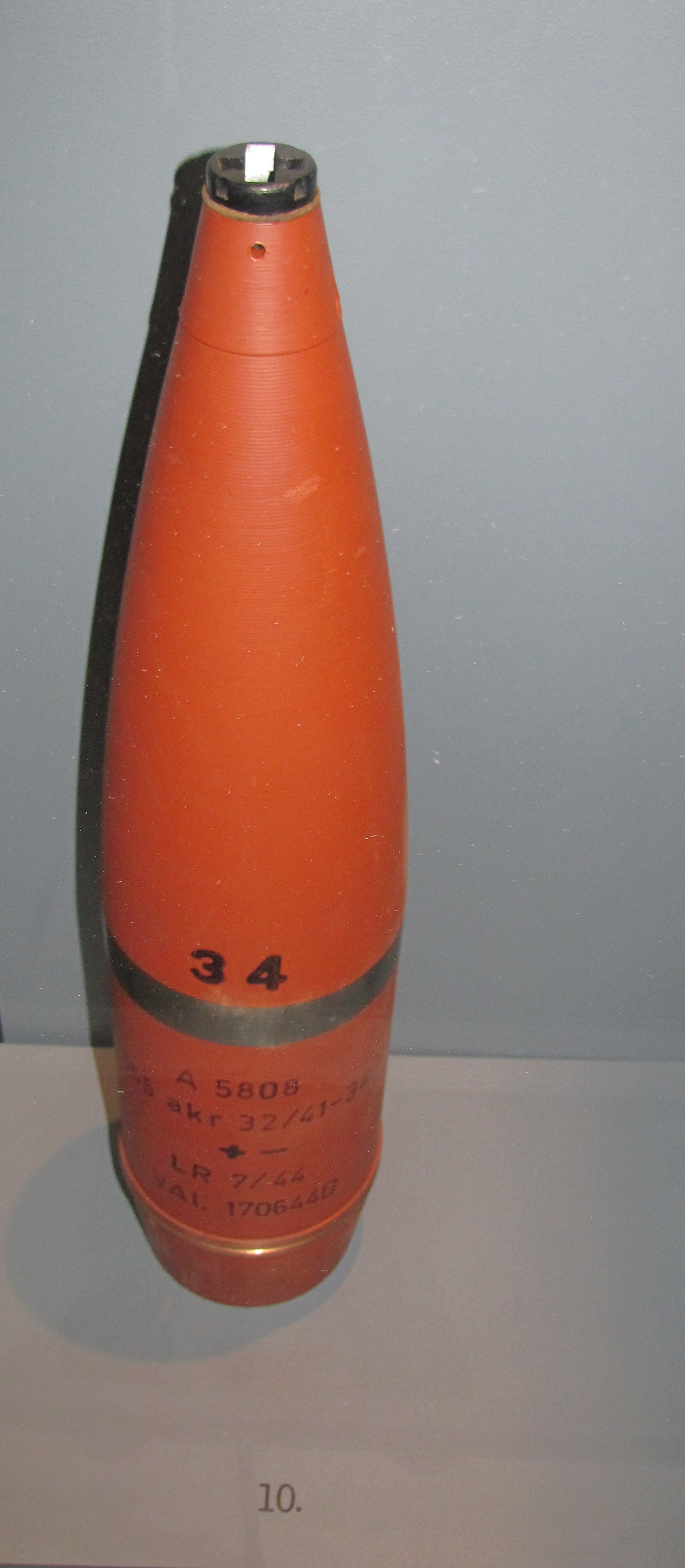 155 mm artillery shell used by Finnish army with 155 H 17 howitzer (Canon de 155 C modèle 1917 Schneider) in Hämeenlinna artillery museum. 155 mm amatol shell, fuze hole 34. Weight 42.70 kg.